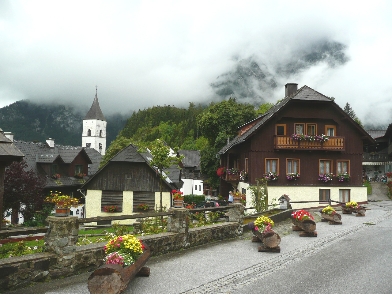 Pürgg village - clouds and flowers - St George church (Styria)